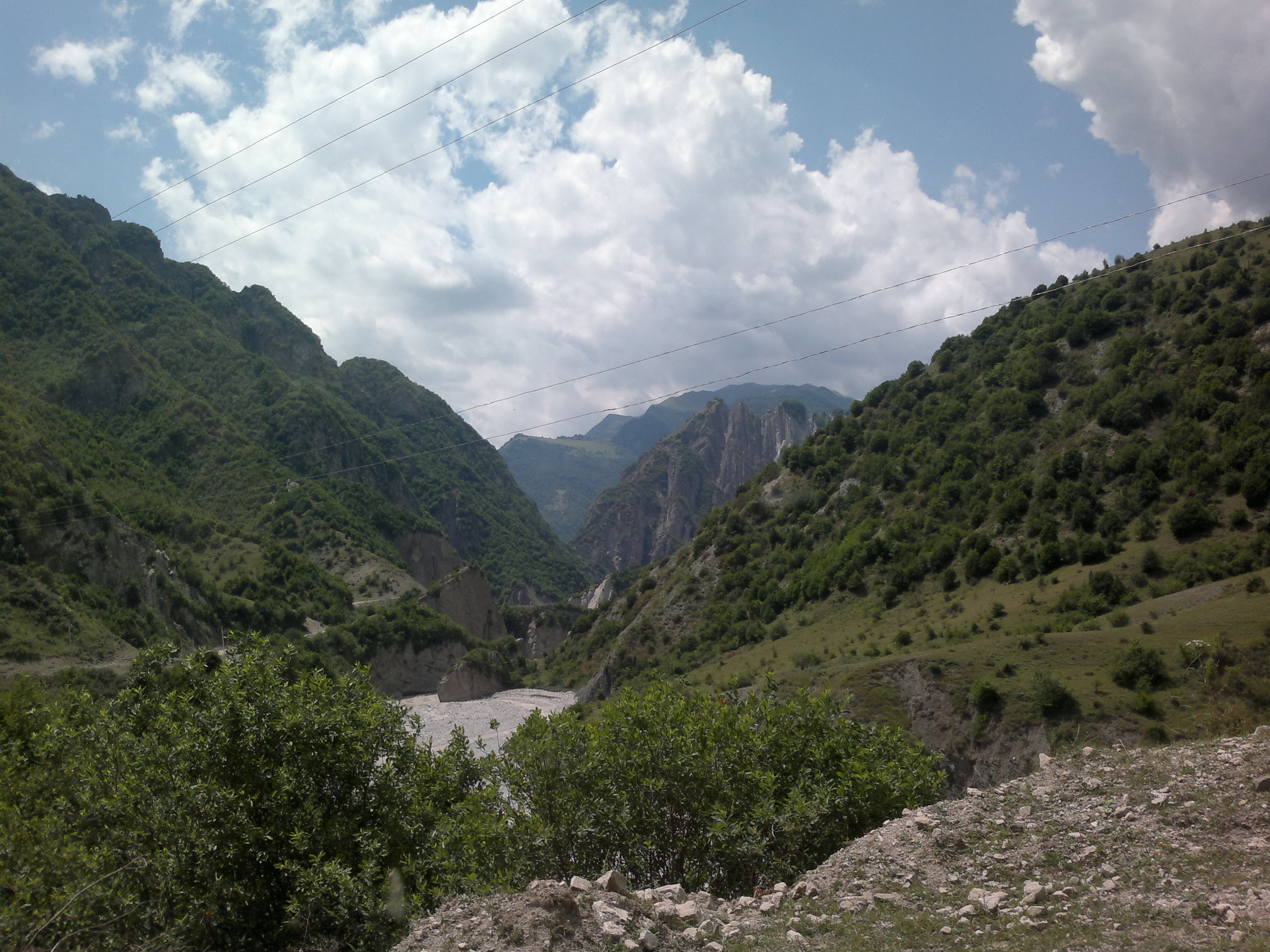 Nature of Ismailli Rayon